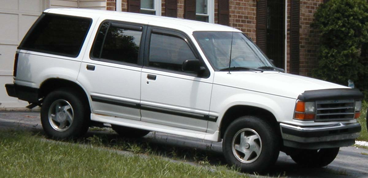 1991-1994 Ford Explorer photographed in USA.